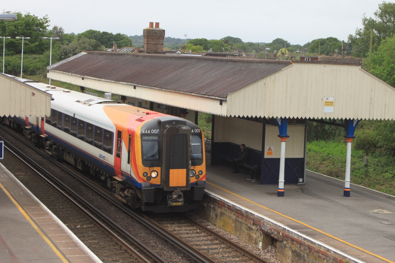 'Desiro' 444007 arrives at Wareham with a South West Trains' service from Weymouth to Waterloo.